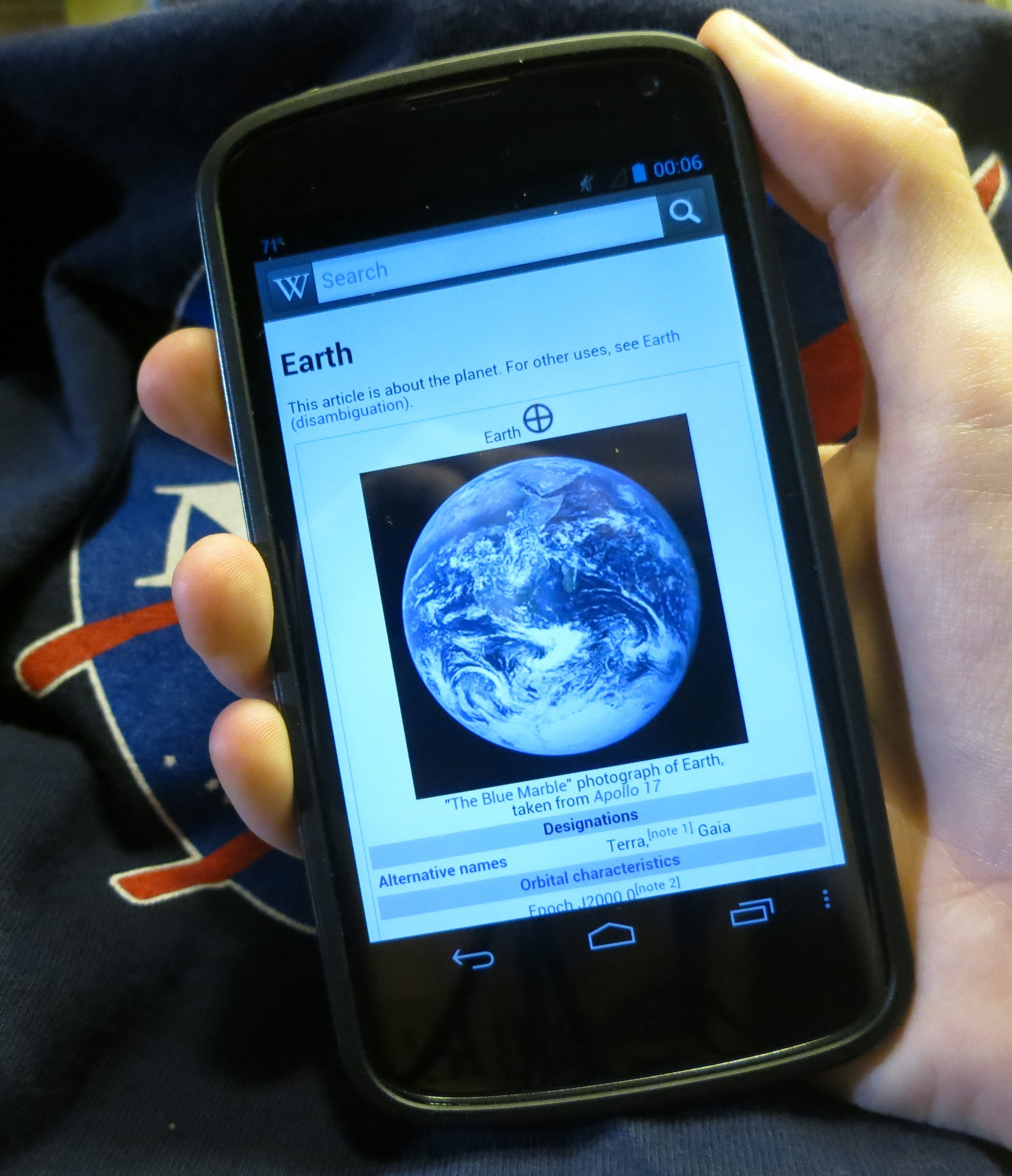 Wikipedia app running on Nexus 4 in hand. Background is a NASA t-shirt.